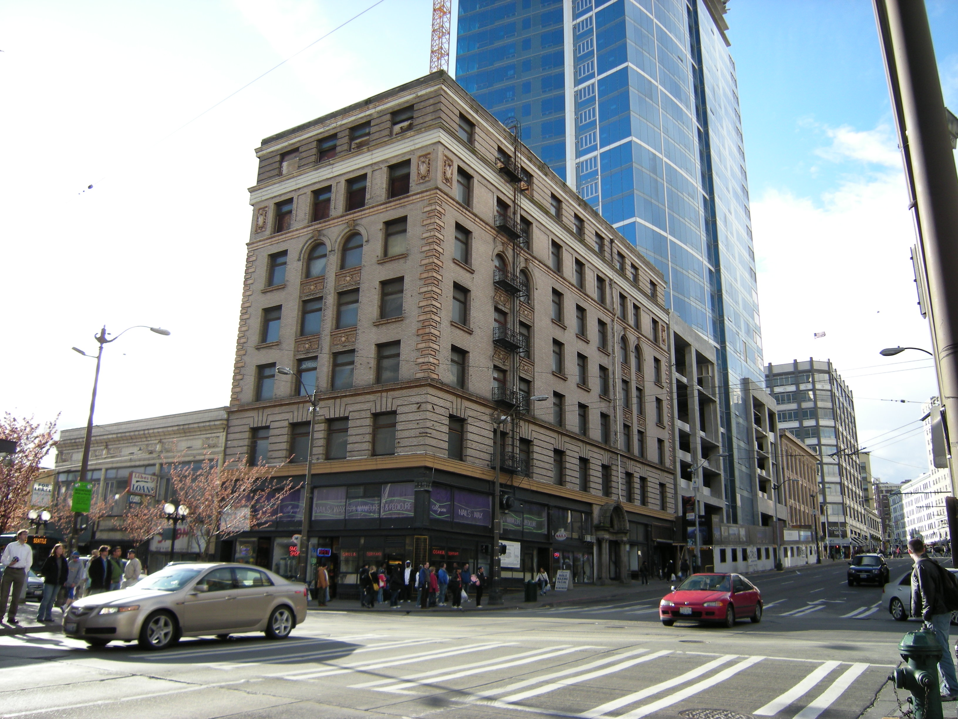 The Eitel Building, 1501 Second Ave., Seattle, Washington. The building has city landmark status. Judging by land use action signs, all or part of it is about to be incorporated into a taller tower building